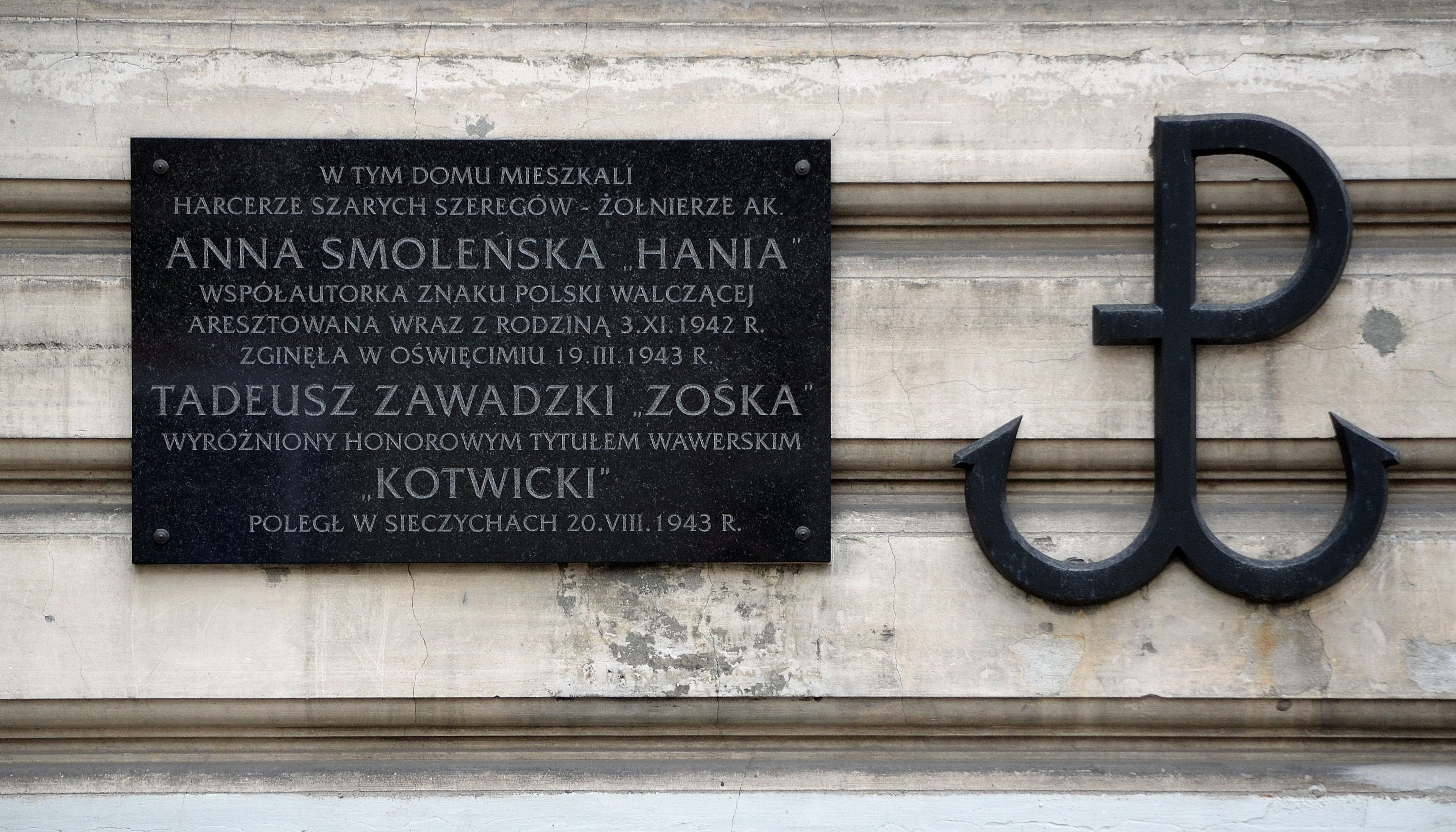 Plaque in memory of Anna Smoleńska and Tadeusz Zawadzki at 75 Koszykowa Street in Warsaw